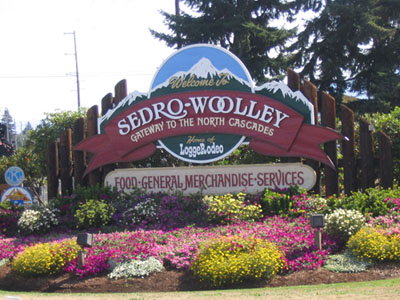 Picture taken Summer of 2005. One of the many signs in Sedro-Woolley, WA. my grandma lives here